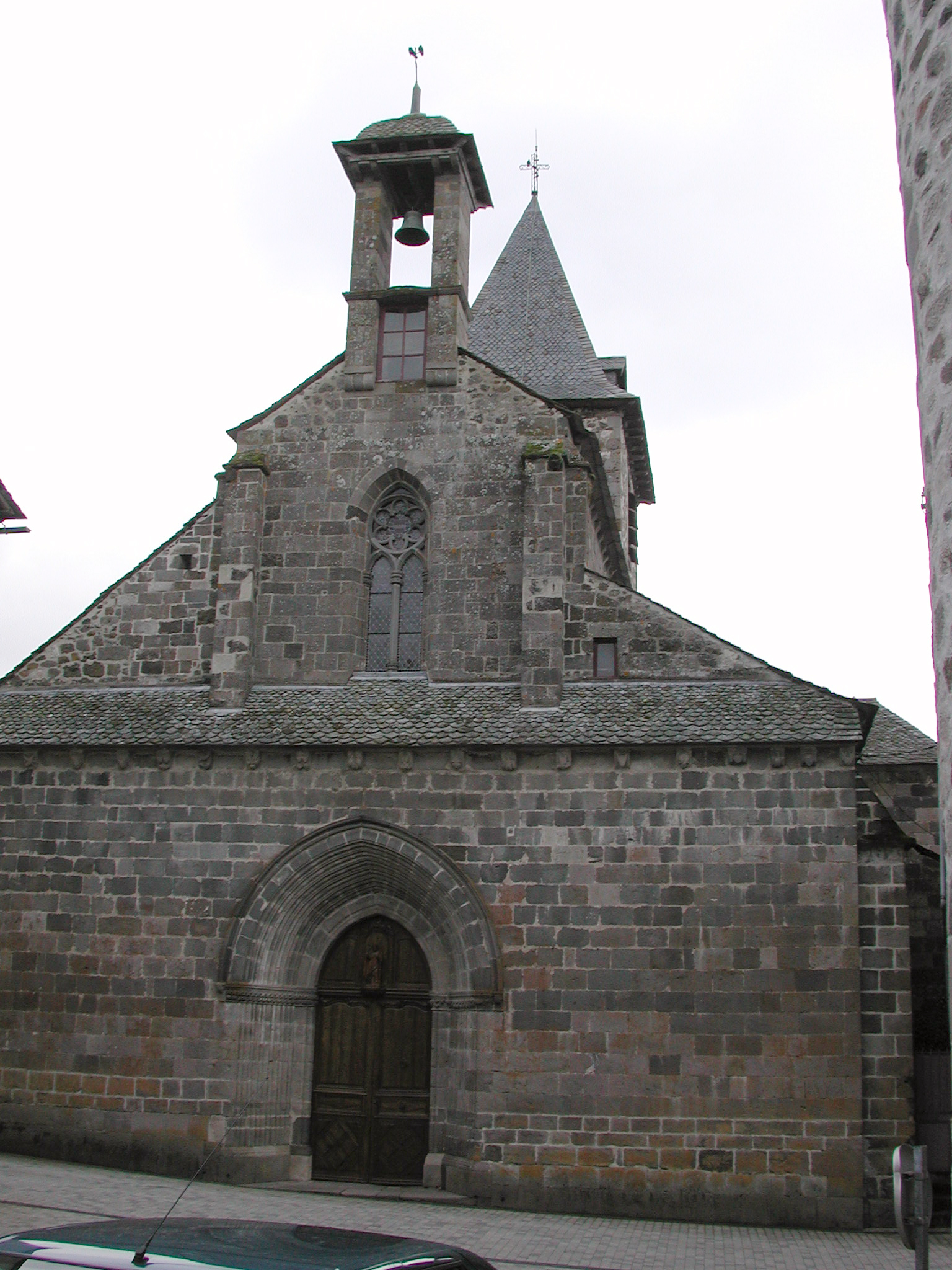 Church Saint Thomas de Canterbury, Mur-de-Barrez , Aveyron, France